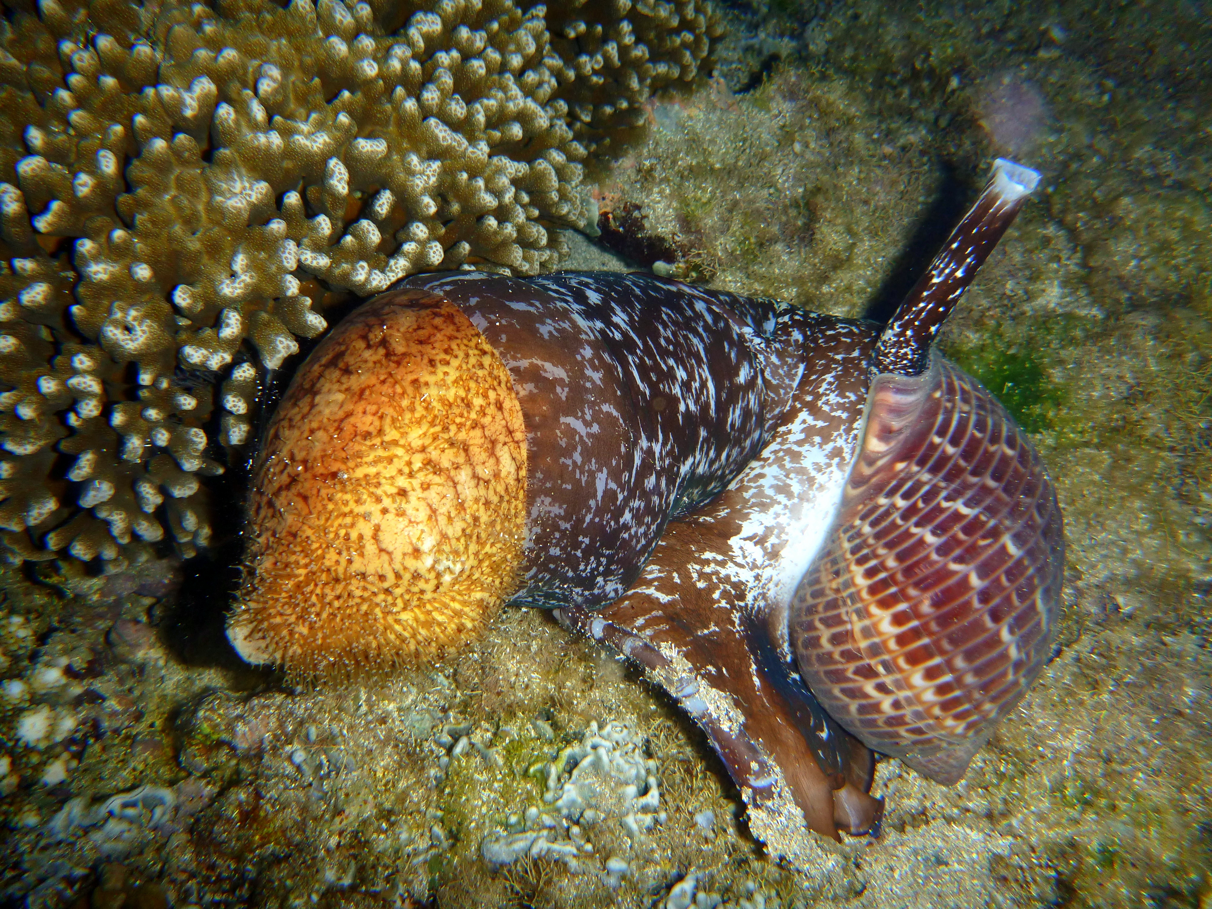 A predator gastropod Tonna perdix attacking and eating a sea cucumber (probably Actinopyga echinites) in la Réunion, at night. This observation has been the topic of a scientific publication.